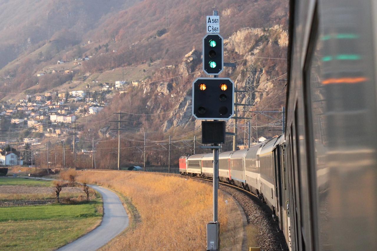 Outer home signal of Riazzino-Cugnasco station.